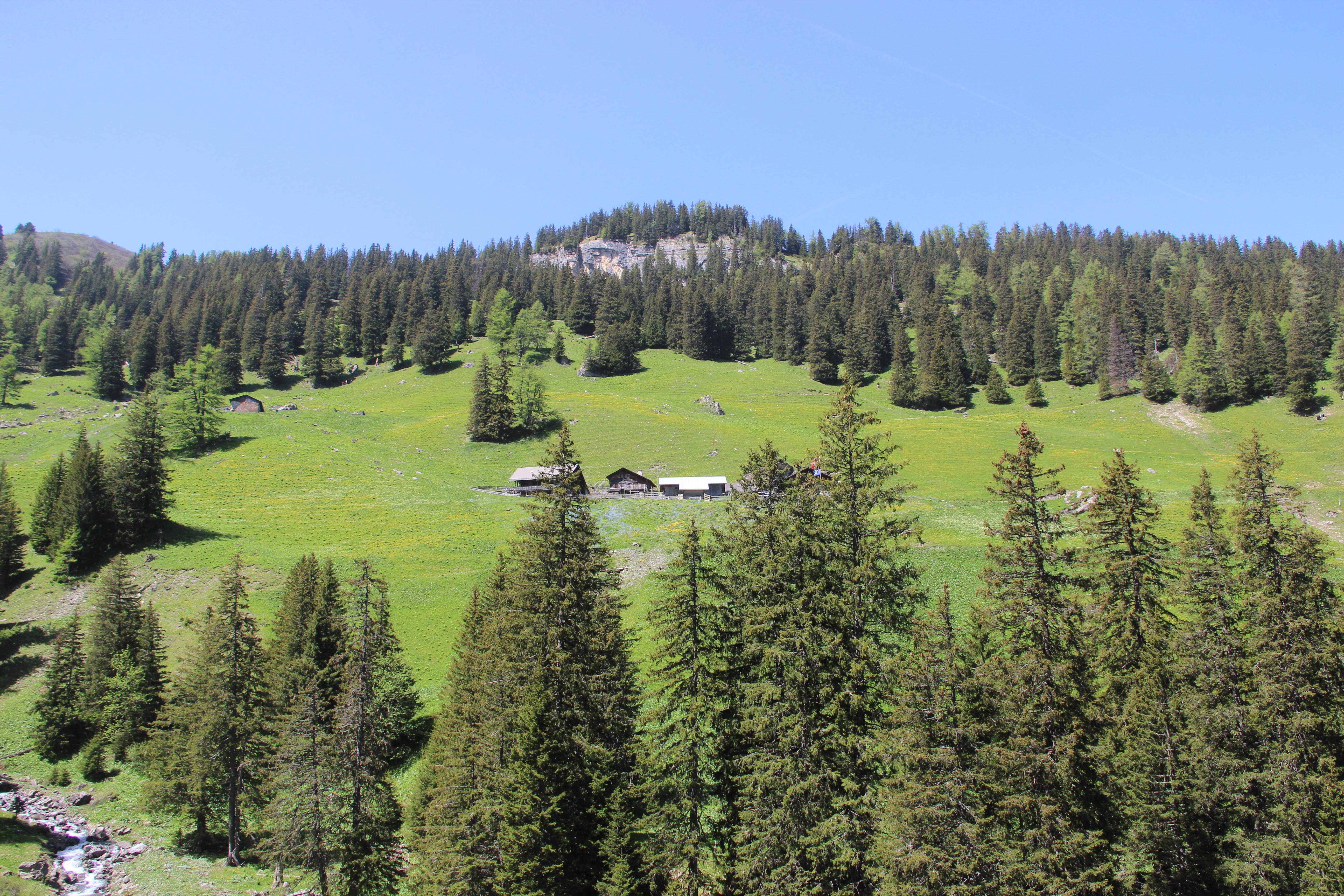 Alpage of Javerne, Bex, Vaud, Switzerland